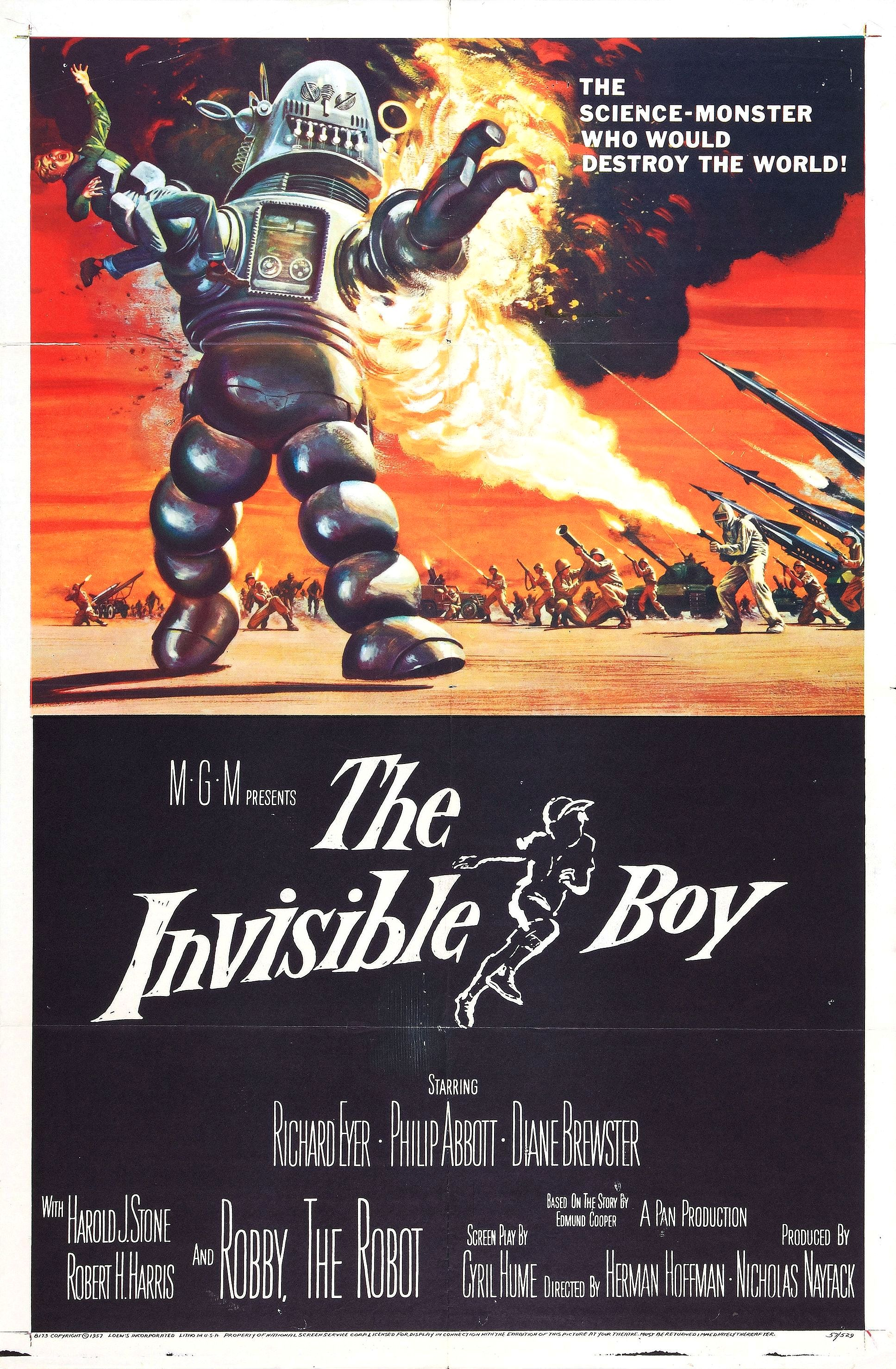 Theatrical poster for the film The Invisible Boy; the poster features Robby the Robot, who originally appeared in The Forbidden Planet (1956).